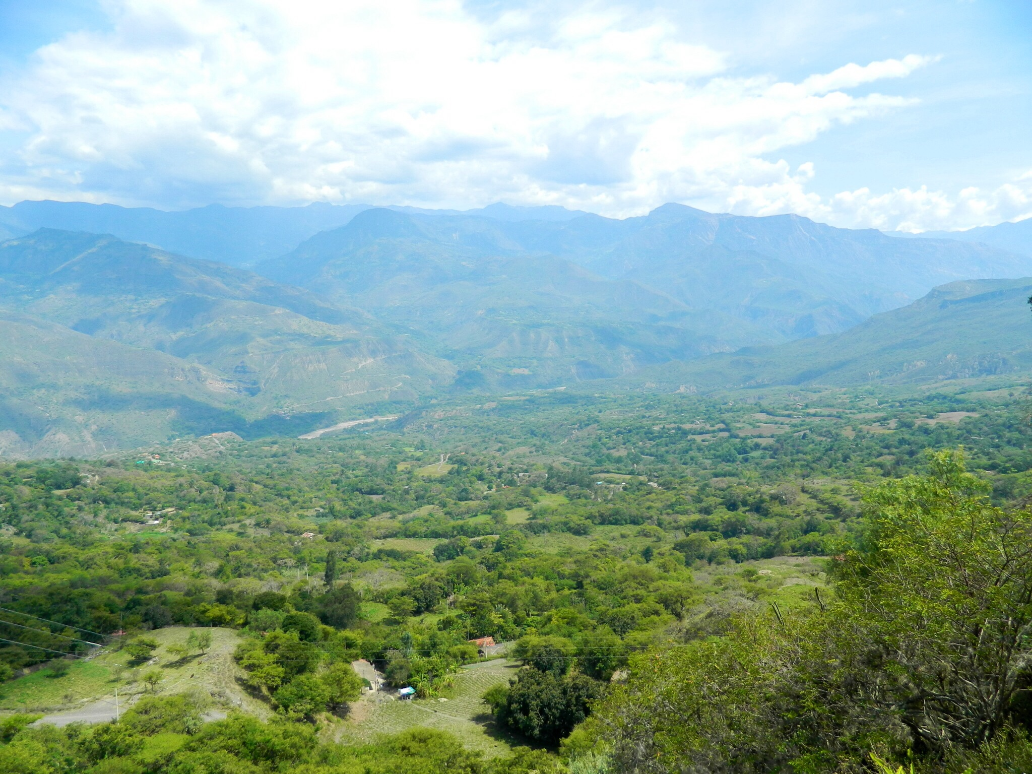 Cañón del río Chicamocha en Soatá